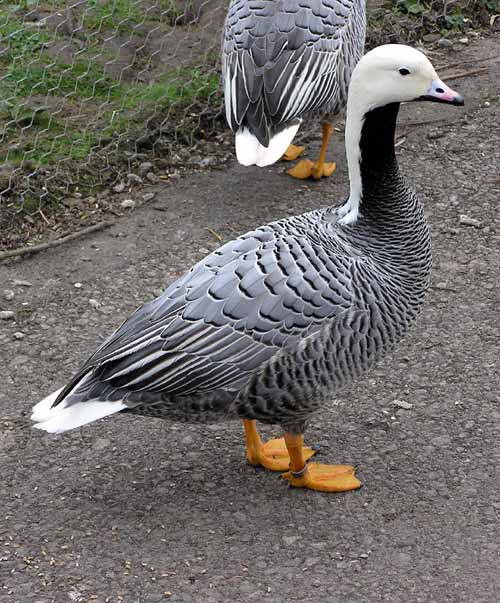 Emperor Goose (Anser canagicus) at Slimbridge Wildfowl and Wetlands Centre, Gloucestershire, England. Taken by Adrian Pingstone in March 2004 and released to the public domain.